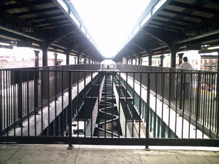 The trackway at Wyckoff Avenue, once used for another track